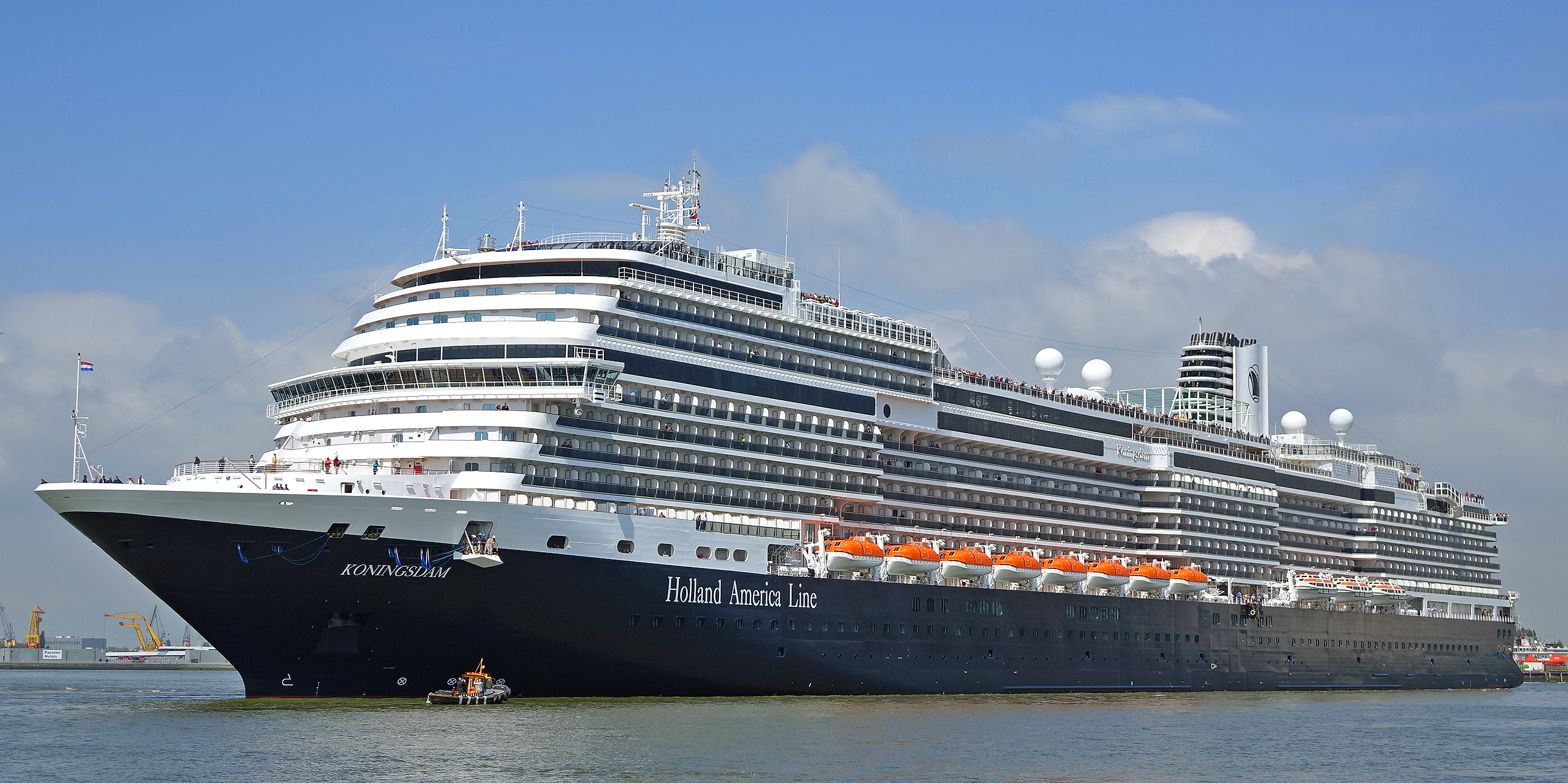 Cruiseship Koningsdam (Holland America Line) in Rotterdam